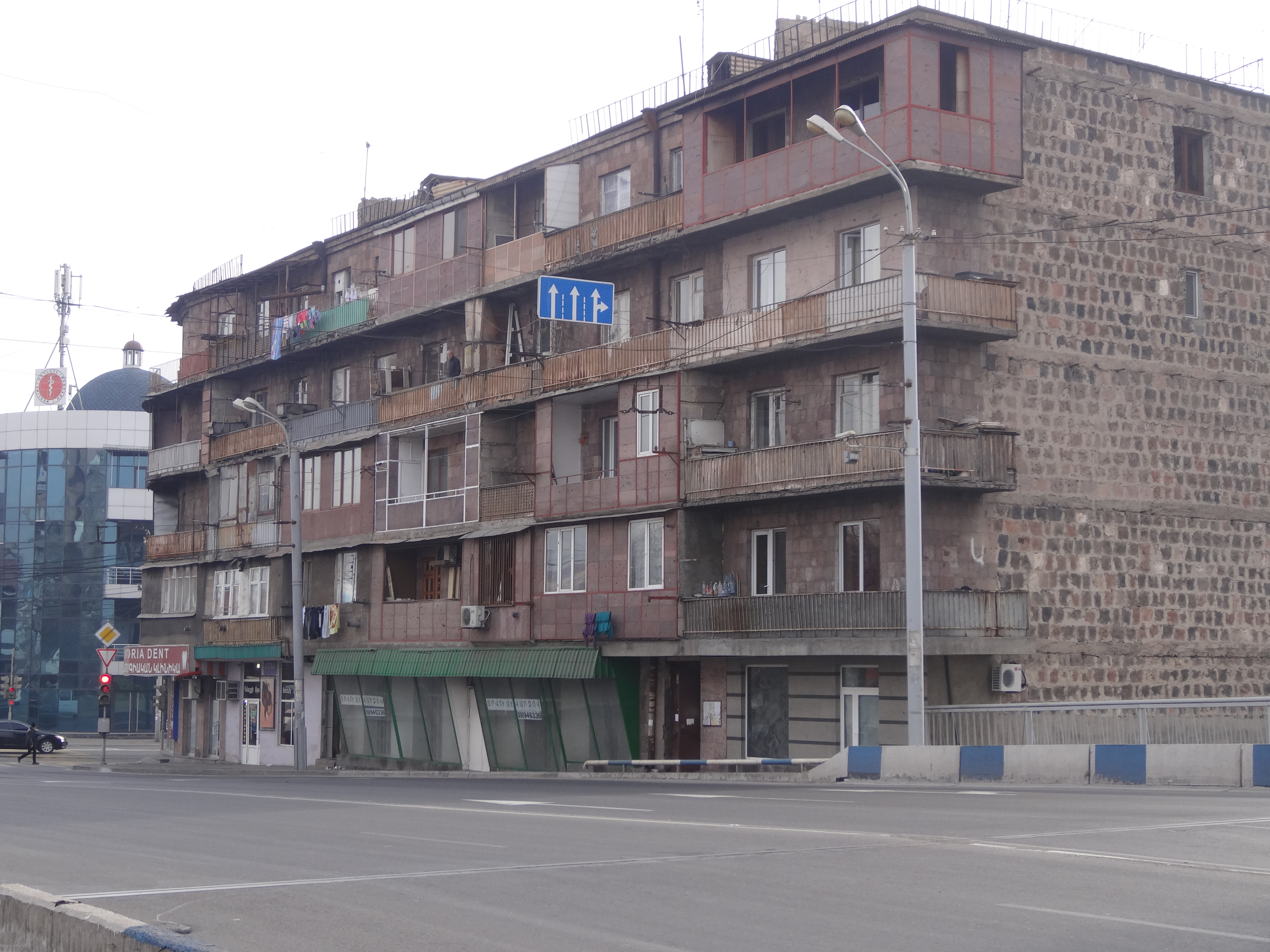 Building in Yerevan, Armenia